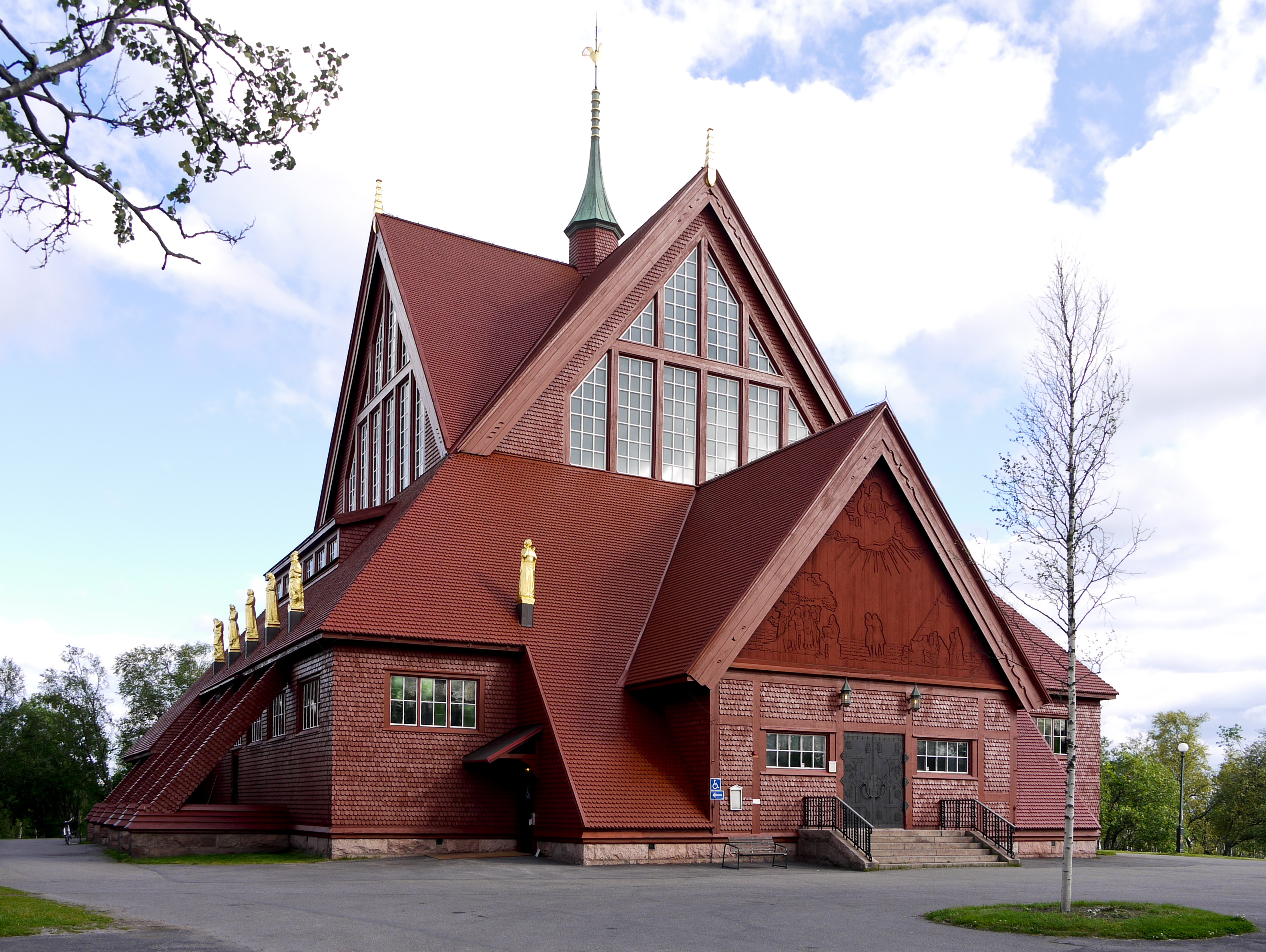 Kiruna kyrka/church, Diocese of Luleå, Kiruna, Sweden. Main view.